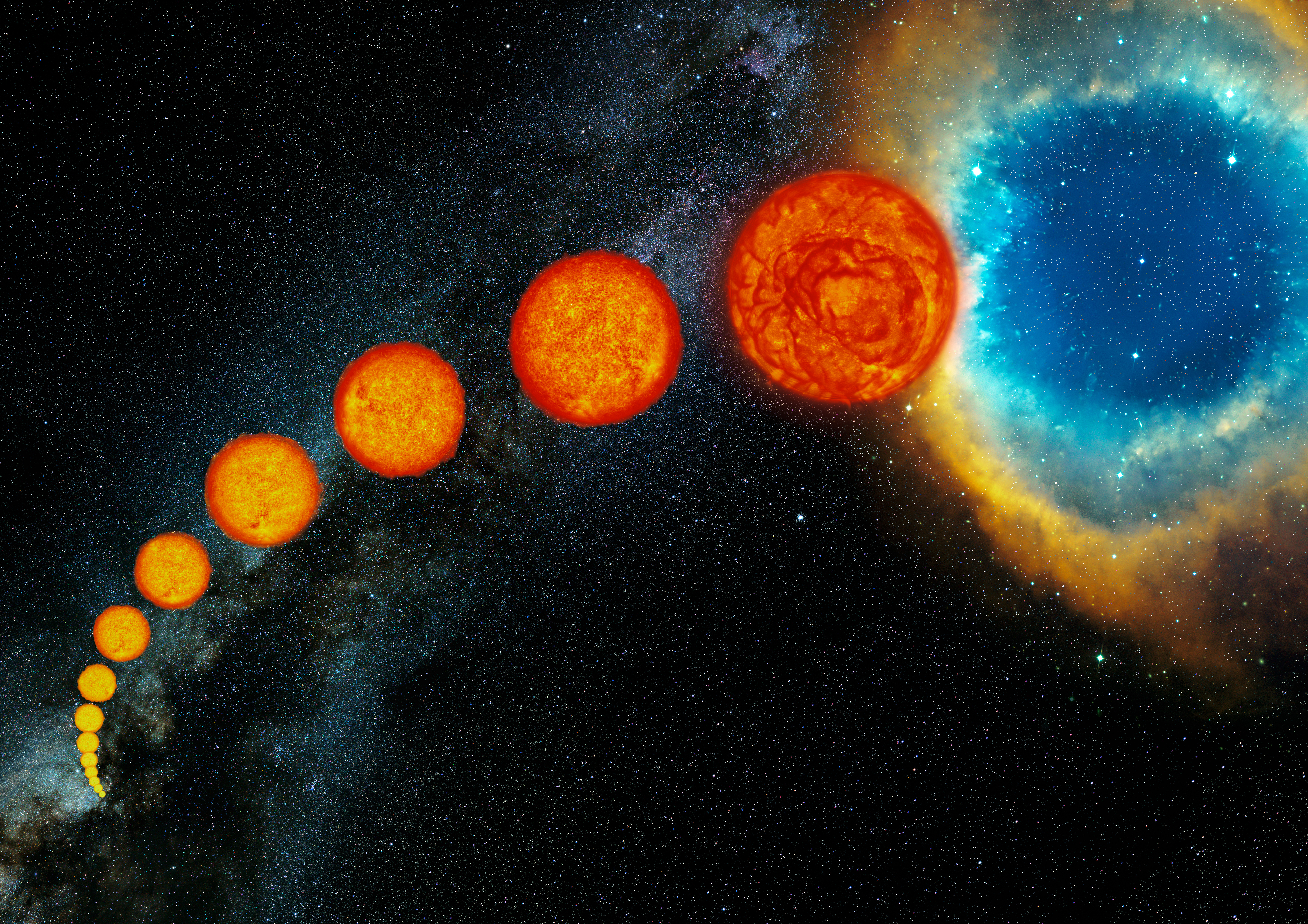 Born from clouds of gas and dust, stars like our Sun spend most of their lifetime slowly burning their primary nuclear fuel, hydrogen, into the heavier element helium. After leading this bright and shiny life for several billion years, their fuel is almost exhausted and they start swelling, pushing the outer layers away from what has turned into a small and very hot core. These “middle-aged” stars become enormous, hence cool and red — red giants. All red giants exhibit a slow oscillation in brightness due their rhythmic “breathing” in and out, and one third of them are also affected by additional, slower and mysterious changes in their luminosity. After this rapid and tumultuous phase of their later life, these stars do not end in dramatic explosions, but die peacefully as planetary nebulae, blowing out everything but a tiny remnant, known as white dwarf.